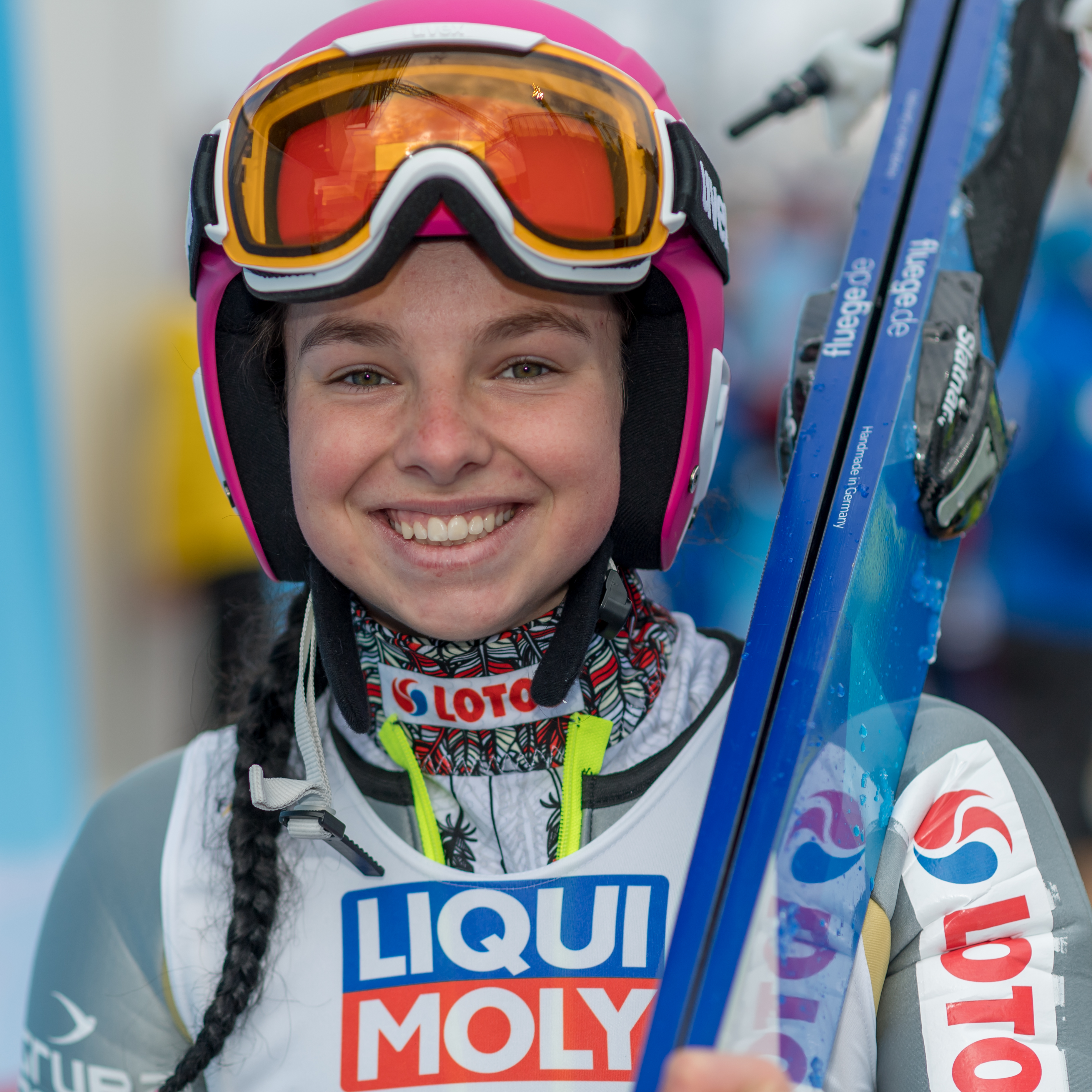 Seefeld, March 2, 2019: FIS Nordic World Ski Championships, Ski Jumping Mixed Team.